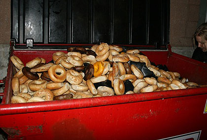 This dumpster behind N.Y.C. Bagel at 1001 W. North Ave. shows how much food can go to waste.